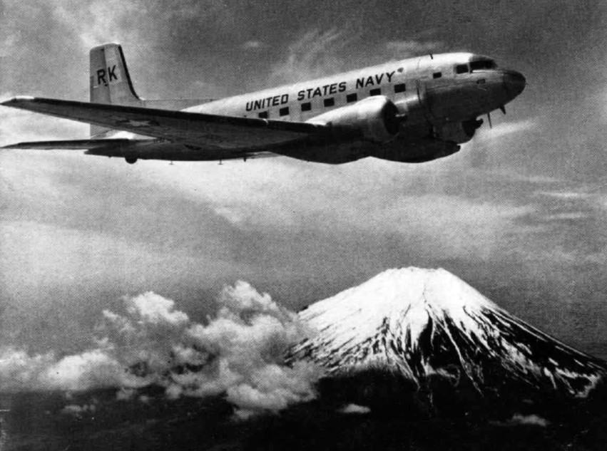 A U.S. Navy Douglas R4D-8 Syktrain from Transport Squadron VR-23 Codfish Airline flying past Mt. Fuji, Japan. VR-23 was formed in 1951 out of the VR-21 detachment at Naval Air Facility Atsugi (Japan) to provide local fleet support.